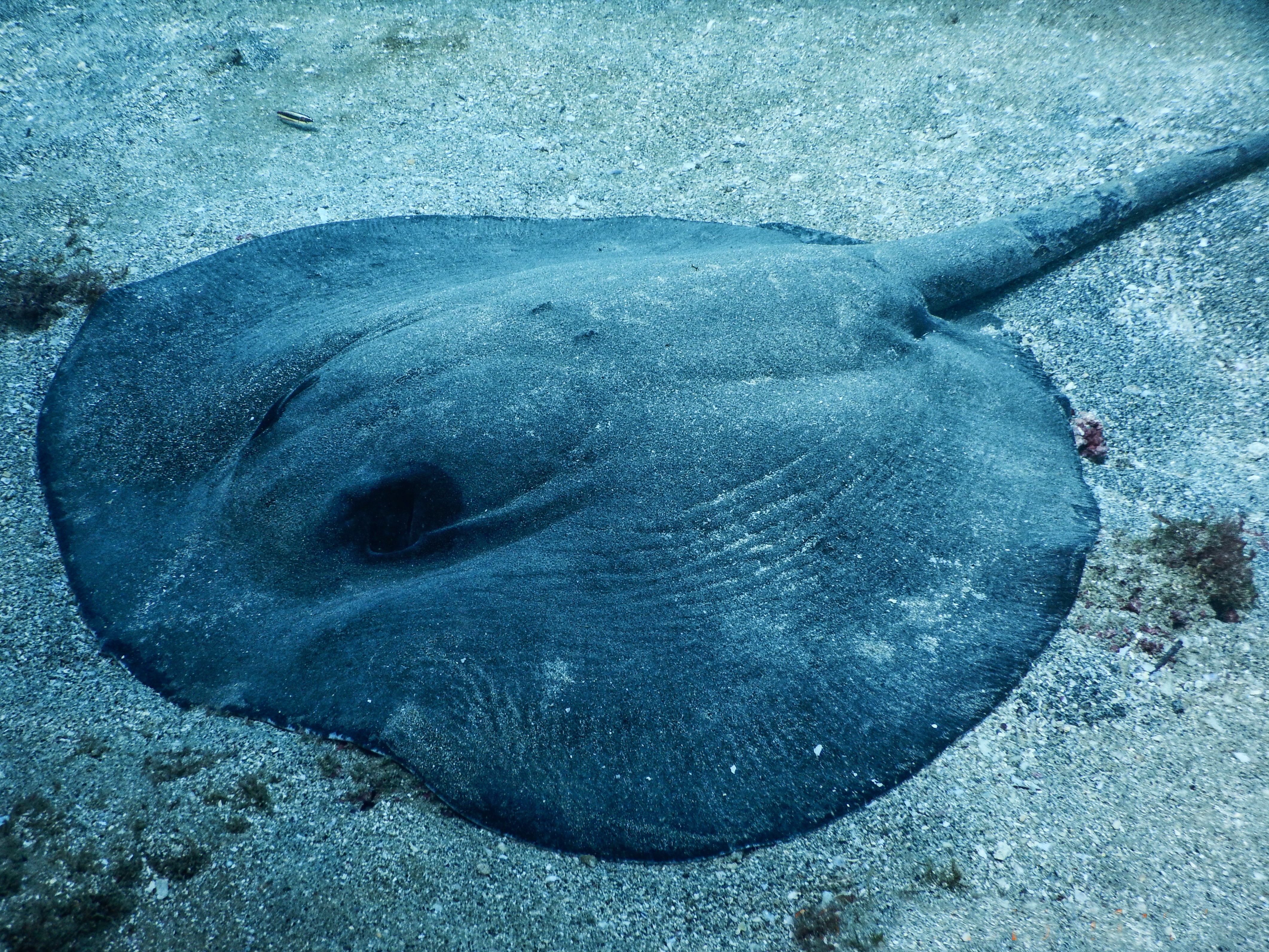 Pacific whiptail stingray (Himantura pacifica) off San Agustin, Oaxaca.